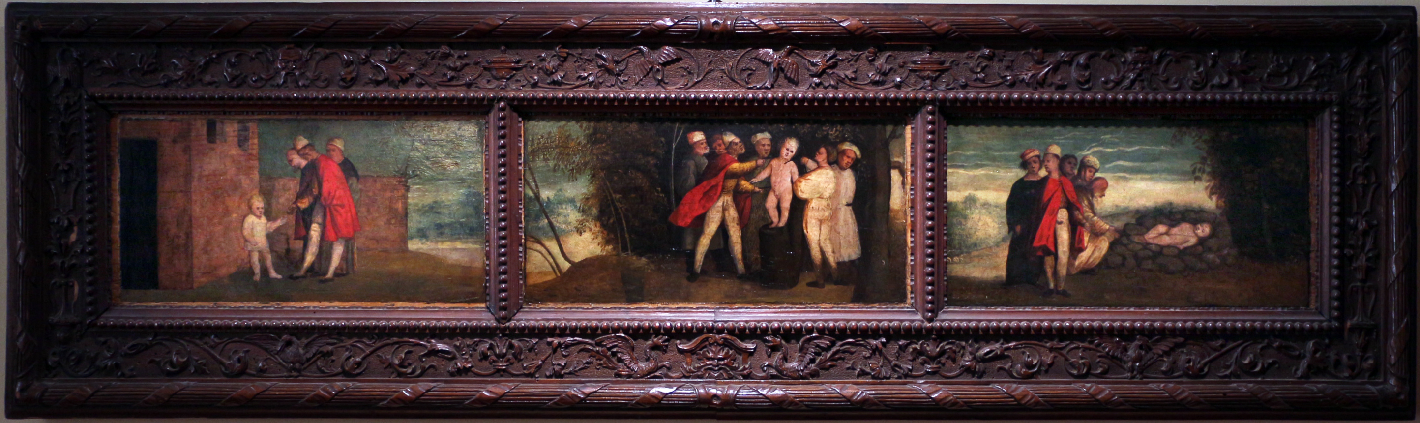 Paintings in the Buonconsiglio Castle